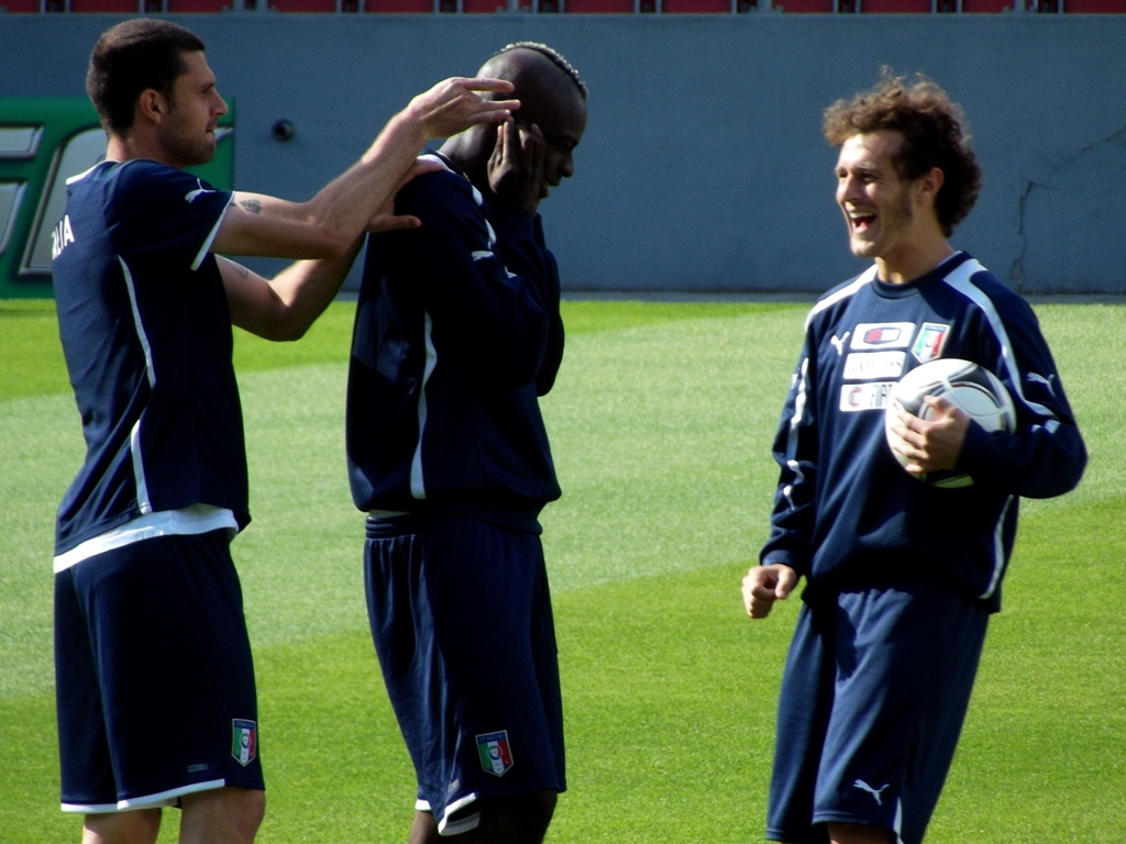 Motta and Diamanti are joking with Balotelli during Italian training in Cracovia Stadium (Kraków), UEFA Euro 2012.